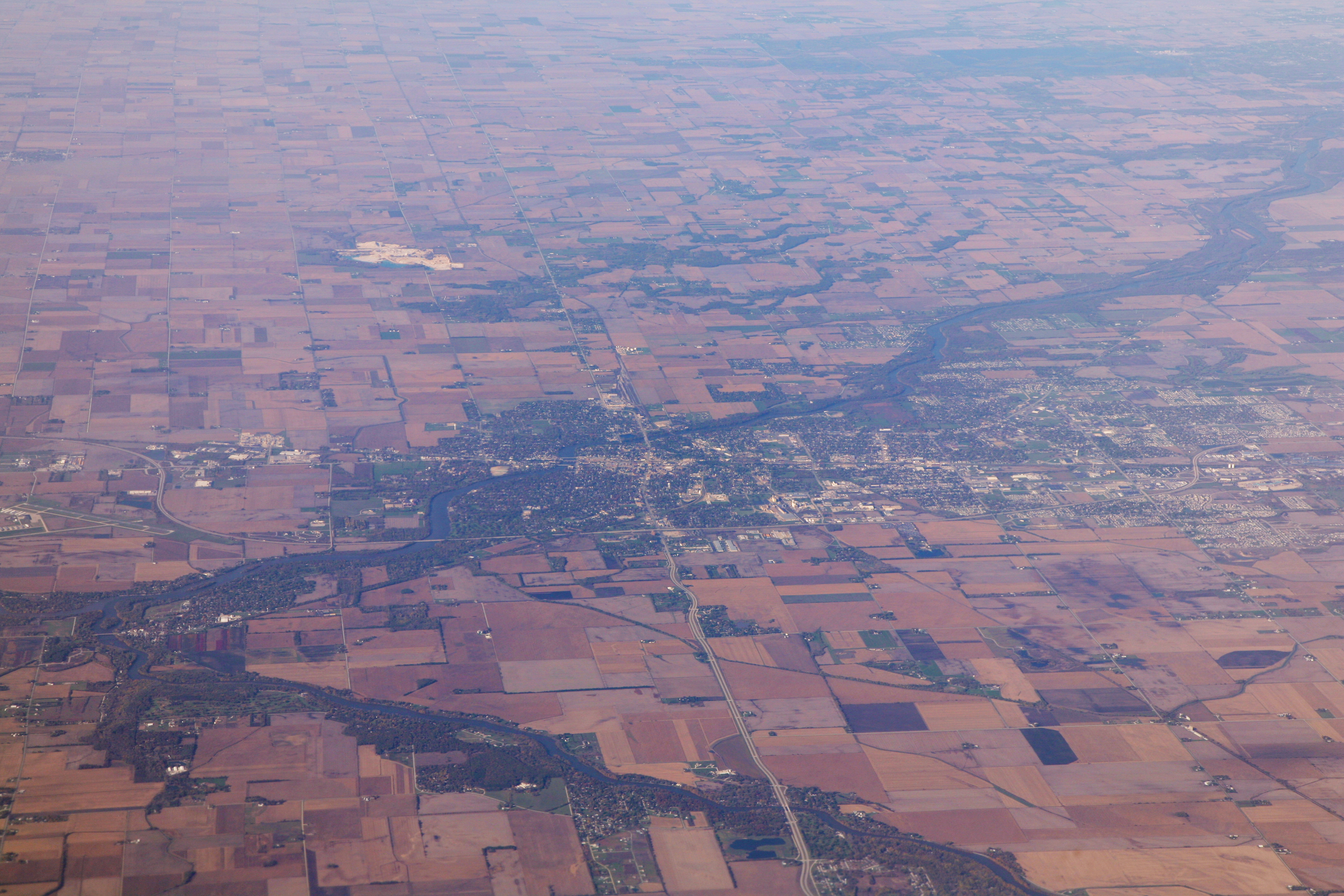 Aerial photo of Kankakee, Illinois (looking westward). The confluence of Iroquois River and Kankakee River is visible on the left edge of the frame. Interstate 57 is running from right to left (north-south) through the image, the four lane road in east-west direction is Illinois Route 17.